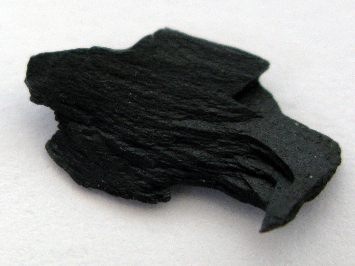 photo of a small sample of Jet (lignite)